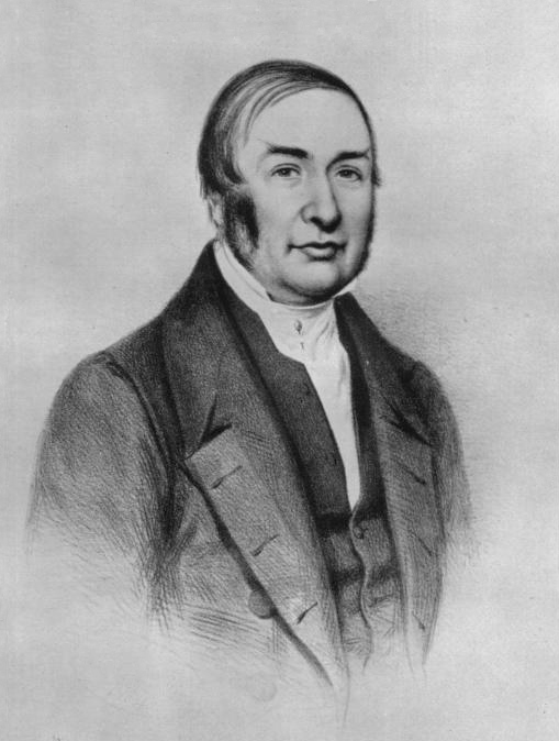 Photograph of Portrait of James Braid. Before 1860, artist unknown. From an engraved portrait in the possession of the Manchester Medical School. In the public domain. Source [1]